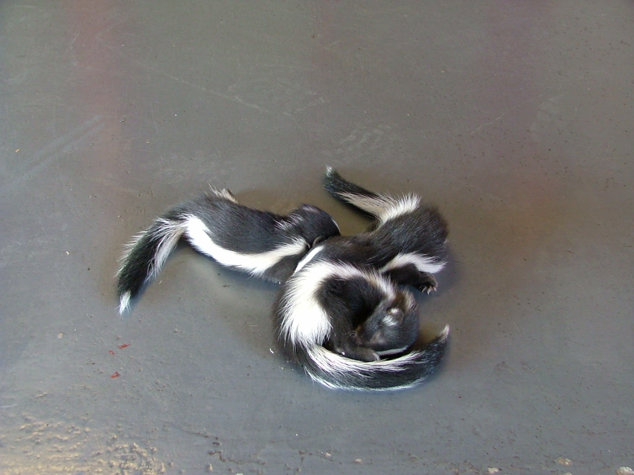 Baby skunks in Mexico